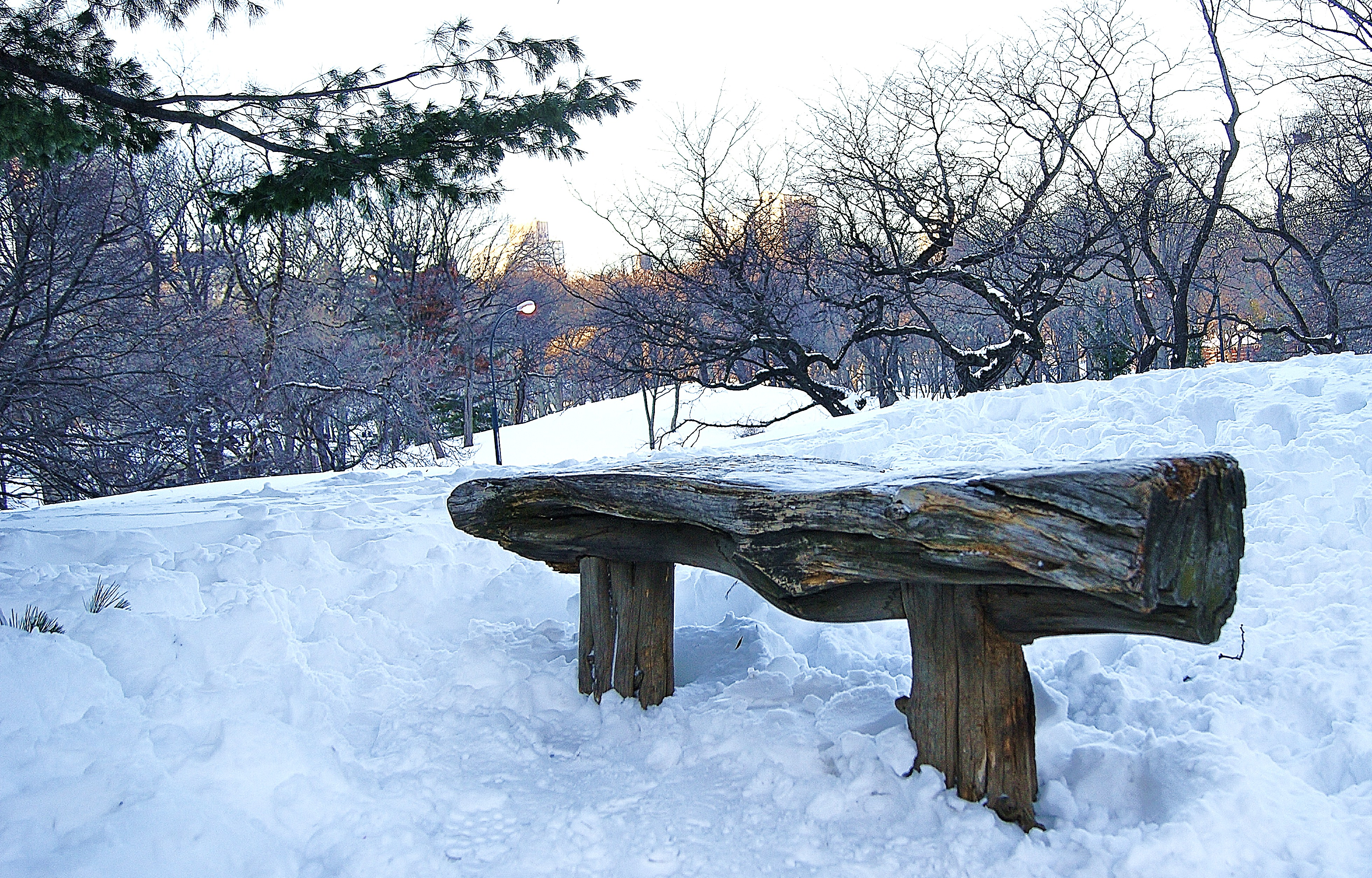 Central park Bench